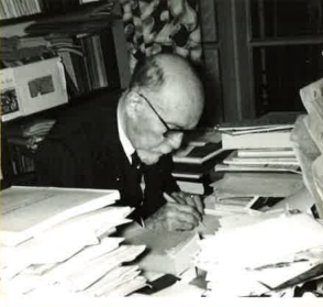 Edouard Dhorme au travail vers la fin sa vie